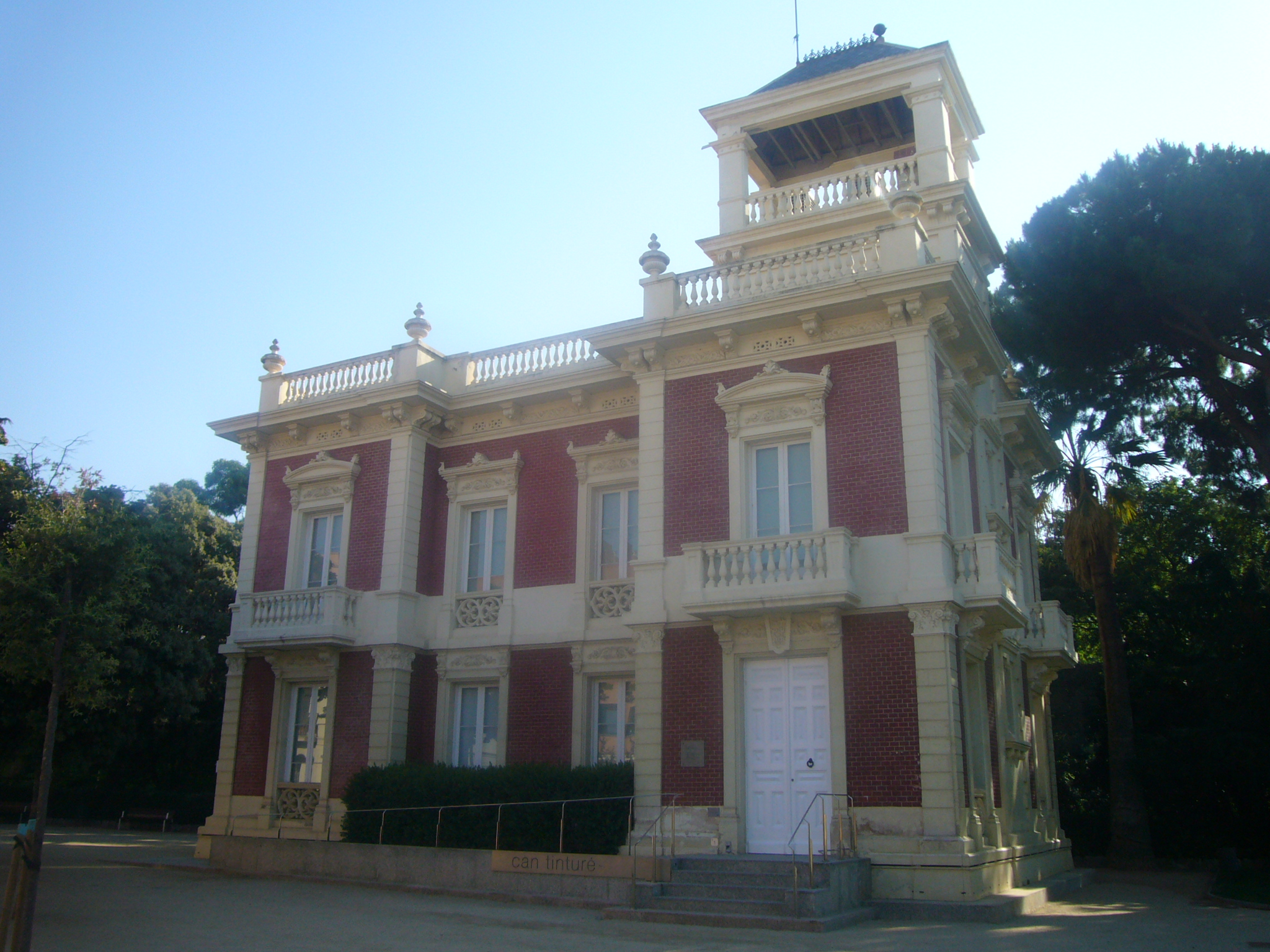 Building Can Tinturé, nowadays a tile museum